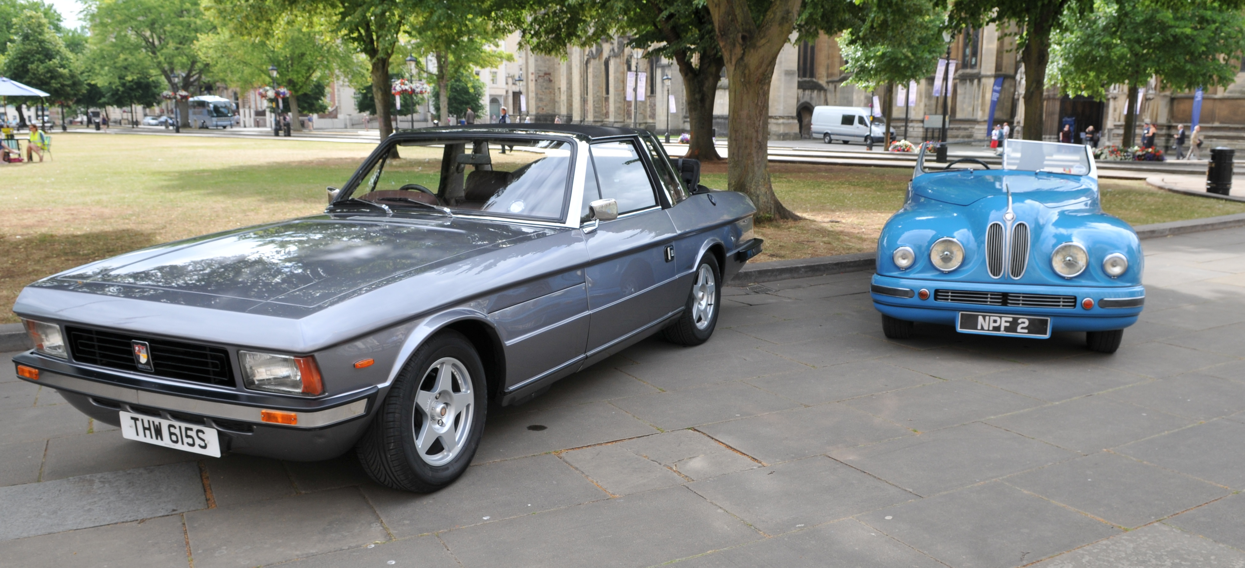 Bristol 412 S2 photographed at the Bristol Aircraft Company centenary service at Bristol Cathedral